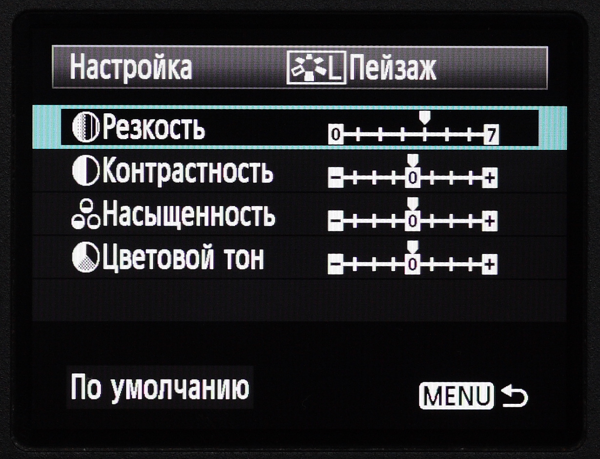 Canon EOS 7D, Picture Style adjusting.